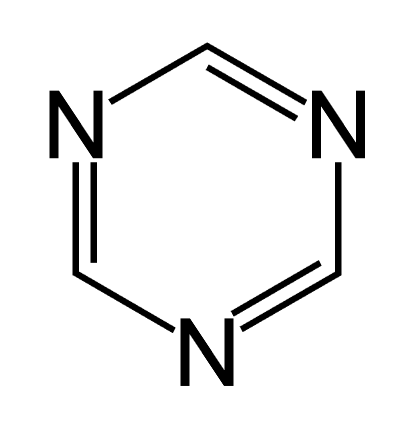 Structure of 1,3,5-triazine. Drawn in ChemDraw by User:Walkerma using User:Cacycle settings.